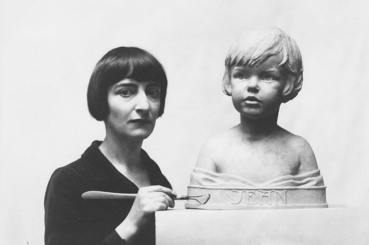 Description: Brenda Putnam was best known for her sculpted garden figures, portraits, busts, bas reliefs and small statuettes. She started her education at the Boston Museum School of Art in Massachusetts. She studied there from 1905-1907, continuing her studies at the Art Students League in New York City, the Corcoran School of Art in Washington, D.C. and she went on to become a WPA artist during the Great Depression. Much of her work is now housed in Syracuse University's Carnegie Library. Creator/Photographer: Peter A. Juley & Son Medium: Black and white photographic print Dimensions: 8 in x 10 in Culture: American Repository: Archives of American Art Native nameArchives of American ArtParent institutionSmithsonian InstitutionLocationWashington, D.C.Coordinates38° 53′ 52.44″ N, 77° 01′ 21.72″ W Established1954Web page control : Q2860568 VIAF: 151134814 ISNI: 0000 0004 5897 2996 LCCN: n79065944 NLA: 35007823 GND: 1023549-8 WorldCat institution QS:P195,Q2860568 Collection: Peter A. Juley & Son Collection - The Peter A. Juley & Son Collection is comprised of 127,000 black-and-white photographic negatives documenting the works of more than 11,000 American artists. Throughout its long history, from 1896 to 1975, the Juley firm served as the largest and most respected fine arts photography firm in New York. The Juley Collection, acquired by the Smithsonian American Art Museum in 1975, constitutes a unique visual record of American art sometimes providing the only photographic documentation of altered, damaged, or lost works. Included in the collection are over 4,700 photographic portraits of artists. Accession number: J0002081